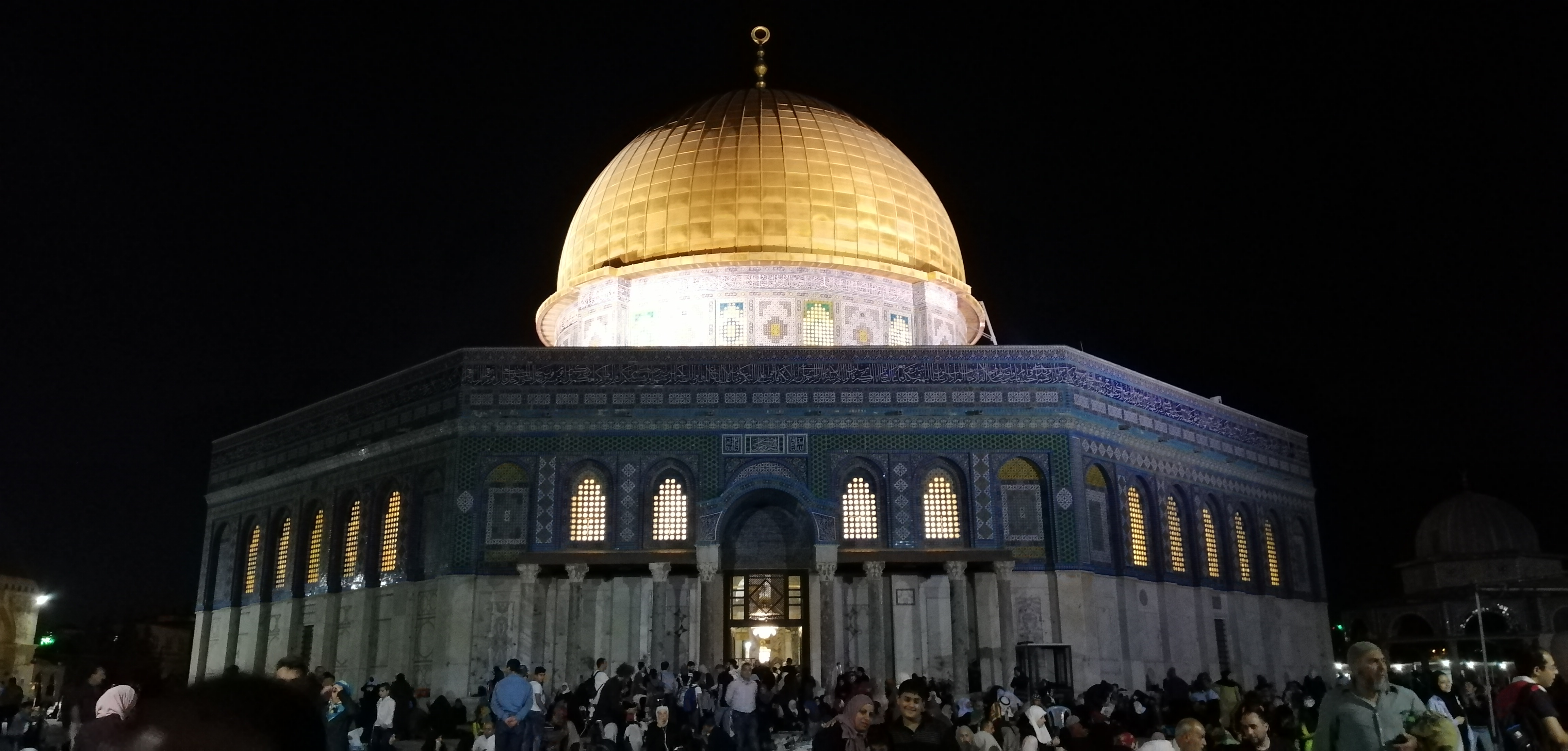 Dome of the Rock at night, and group of worshipers around it gathered to pray